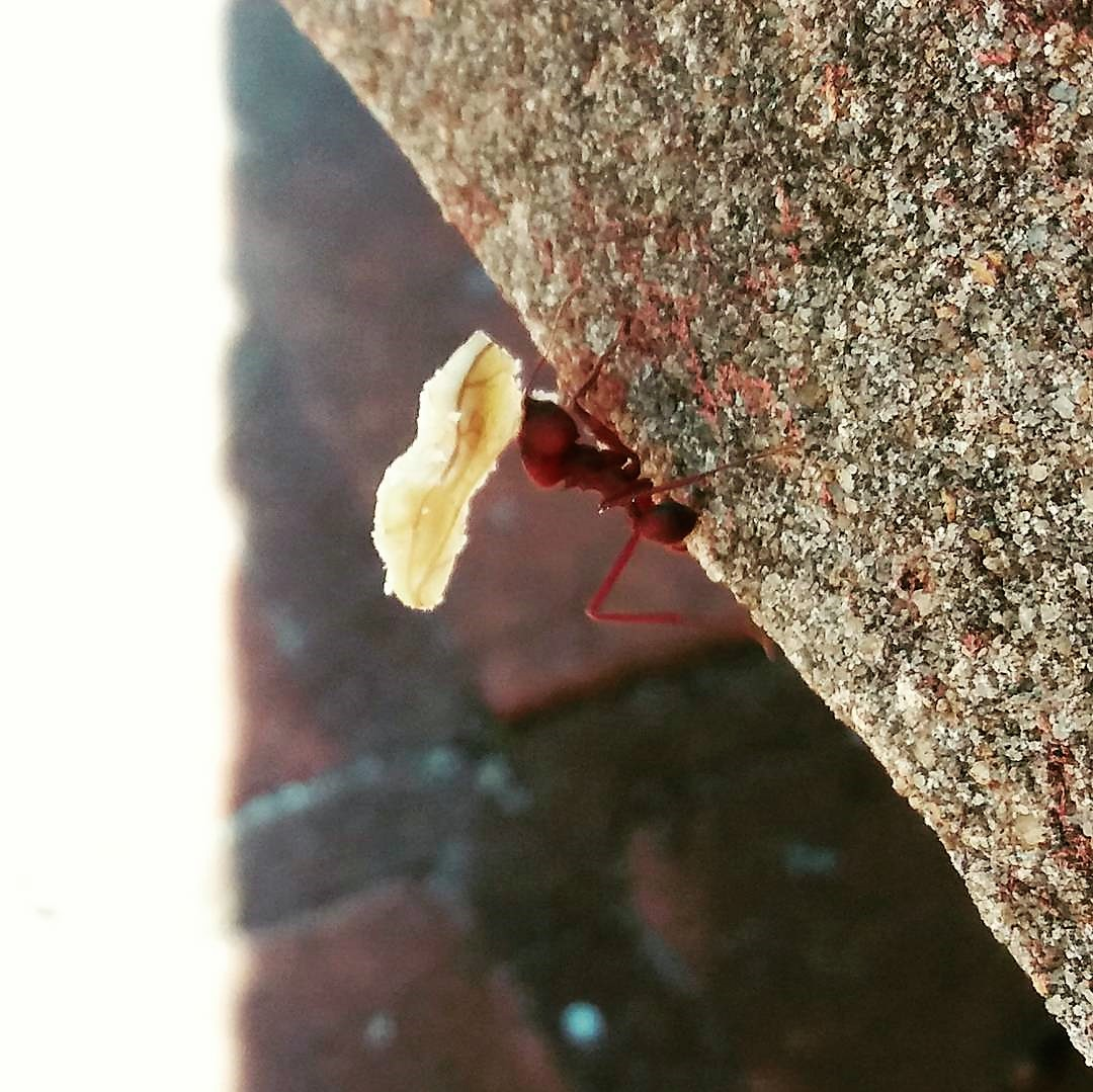 Photo of a Leafcutter ant (Atta spp) carrying a walnut. Jahu, São Paulo, Brazil.